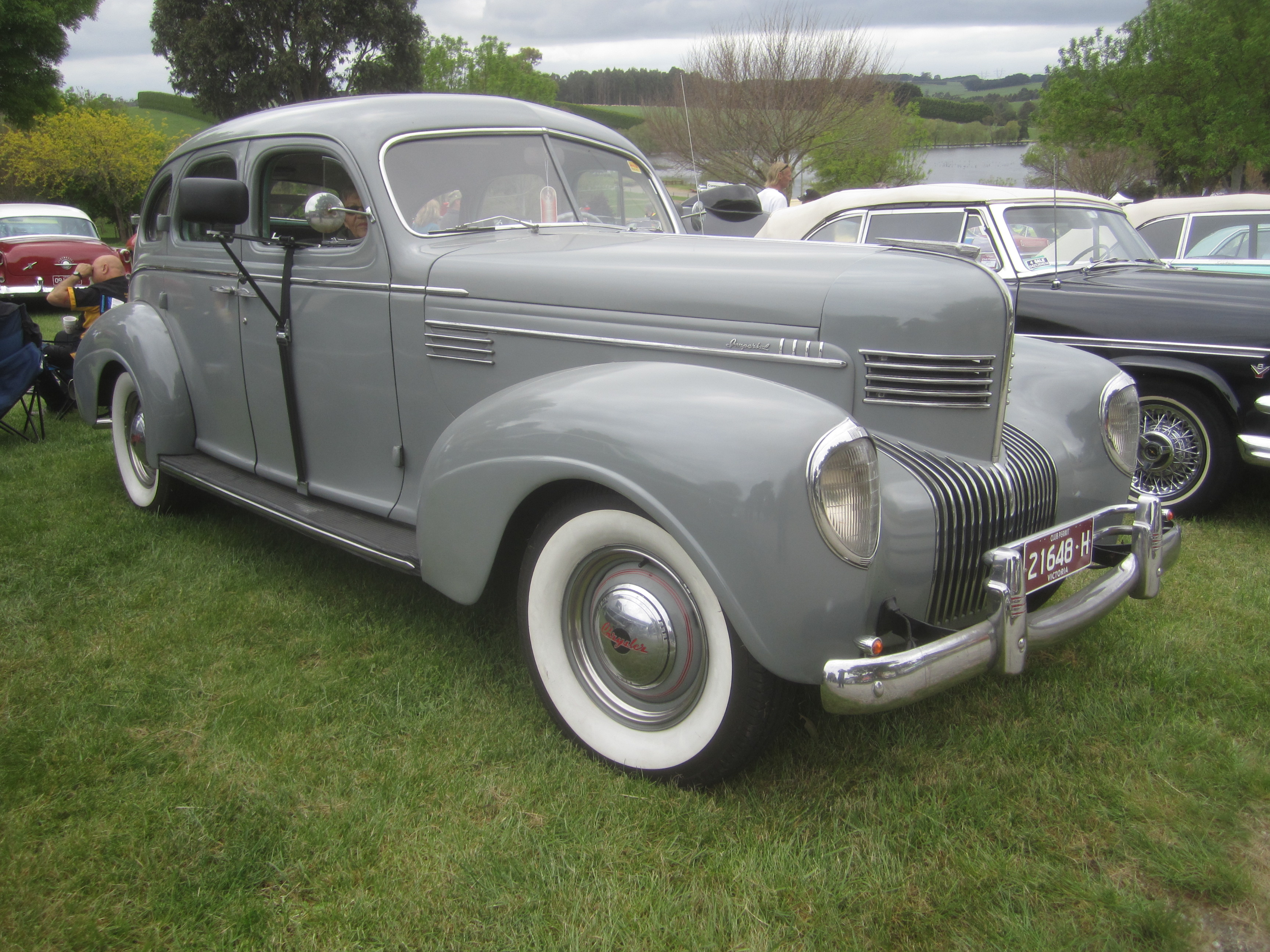 The Imperial was Chryslers top of the line model, made from 1926-54 from then on becoming its own marque. This is the 1937-39 4th generation Imperial, it was available in 3 different models;, this the C14, then the C15 Imperial Custom with blind rear quarters and also the C17 Airflow model. 1939 saw the first Chrysler with headlamps recessed into the front fenders. They were available in Sedan, Limousine, Town Car and 3 different Coupes. Engine; 323.5 cu in Chrysler Flathead